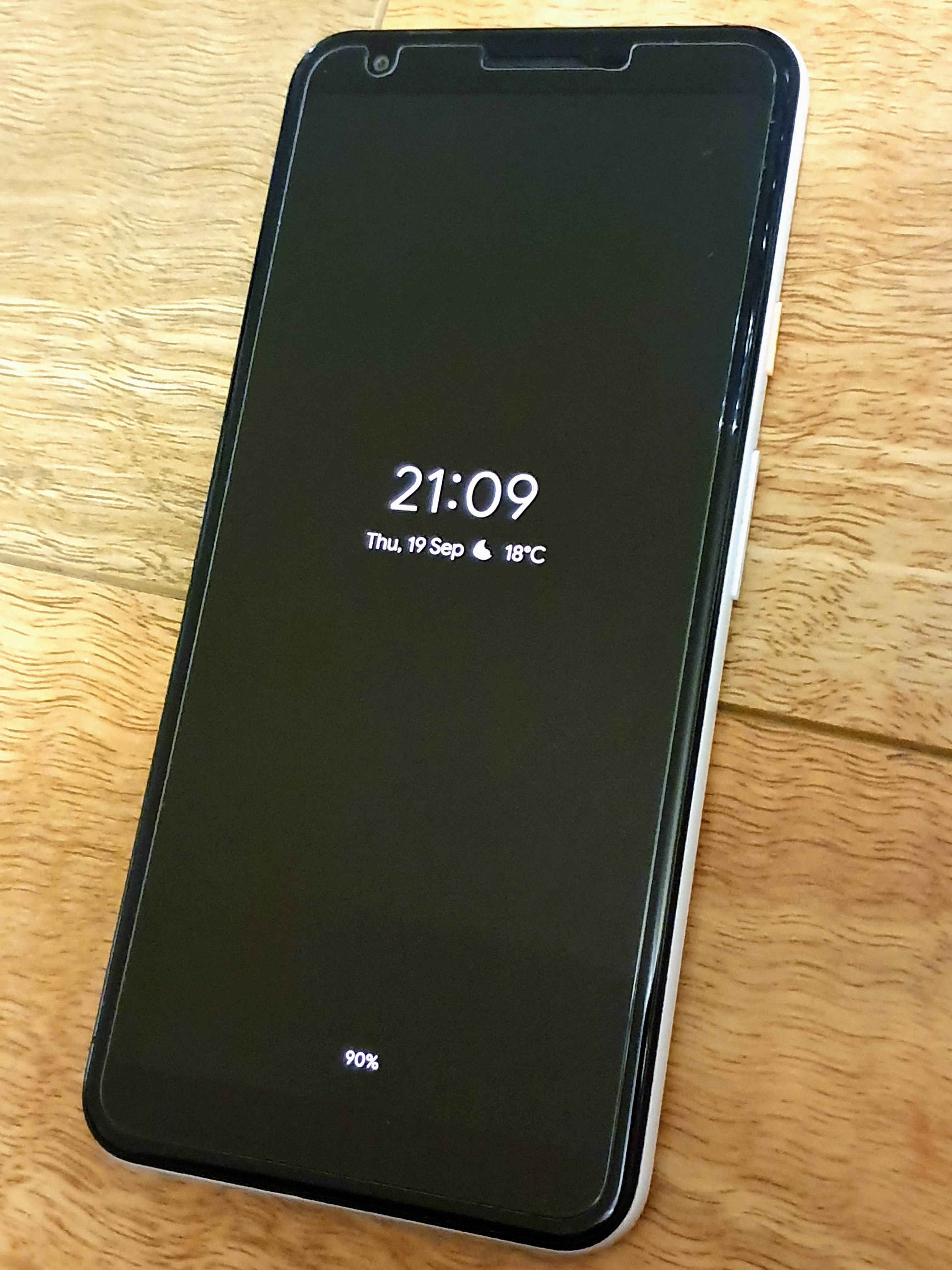 A Pixel 3a XL phone showing its Always-On Display. This re-uploaded file is identical with the deleted one, except with GPS coordinates removed.